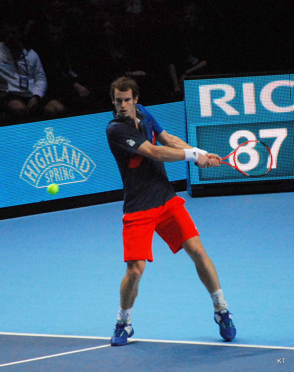 ATP World Tour Finals, the O2, London November 2011.